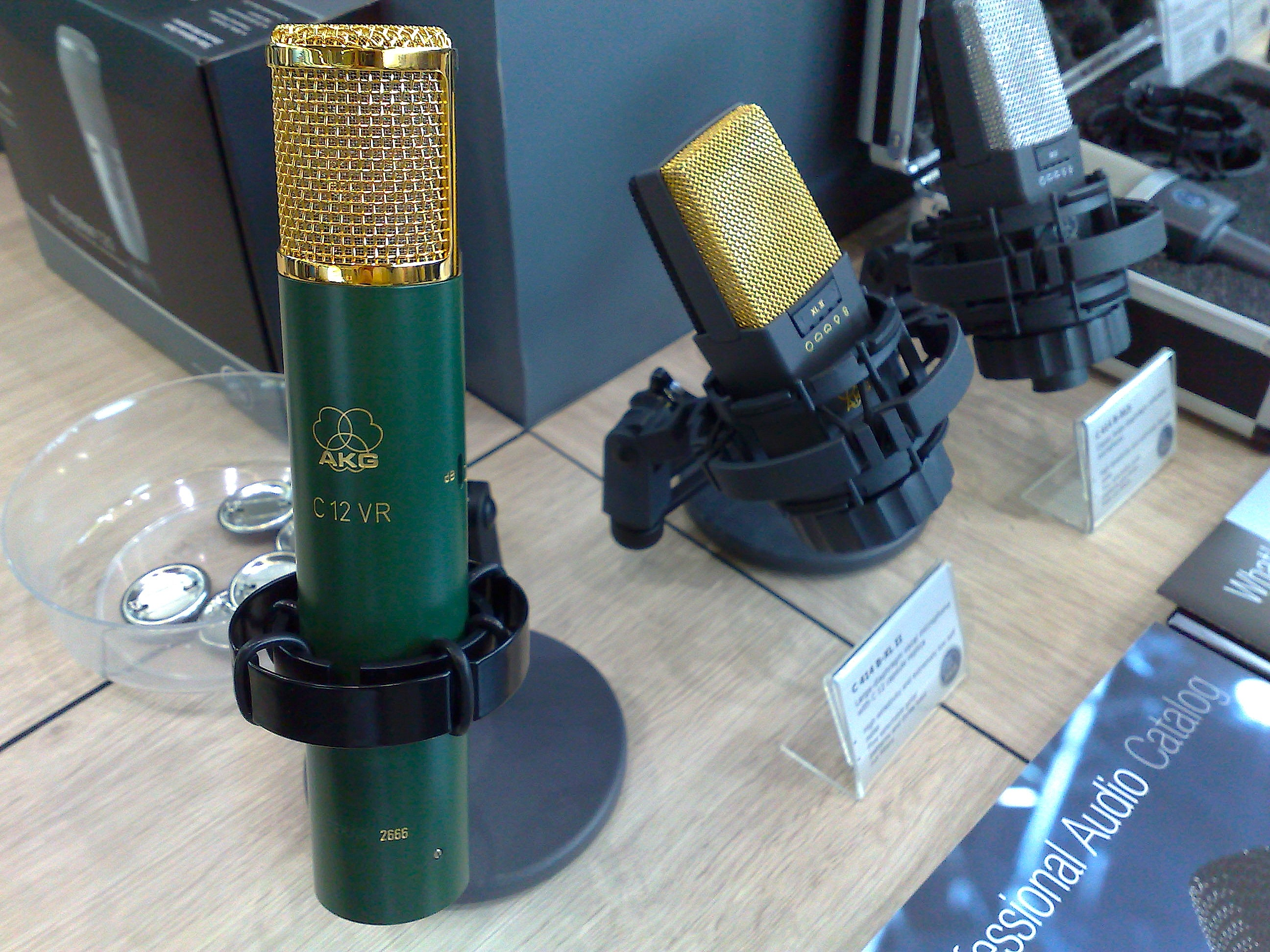 ... with a microphone that has the exact same color scheme as my MXL V67i